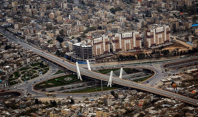 Mashhad entrance at the end of Nouroz holidays